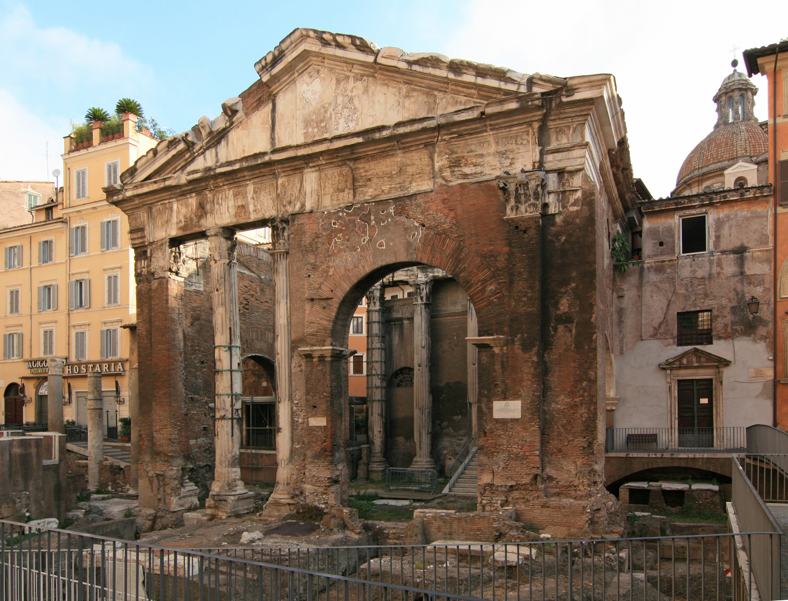 Portico of Octavia, Rome.